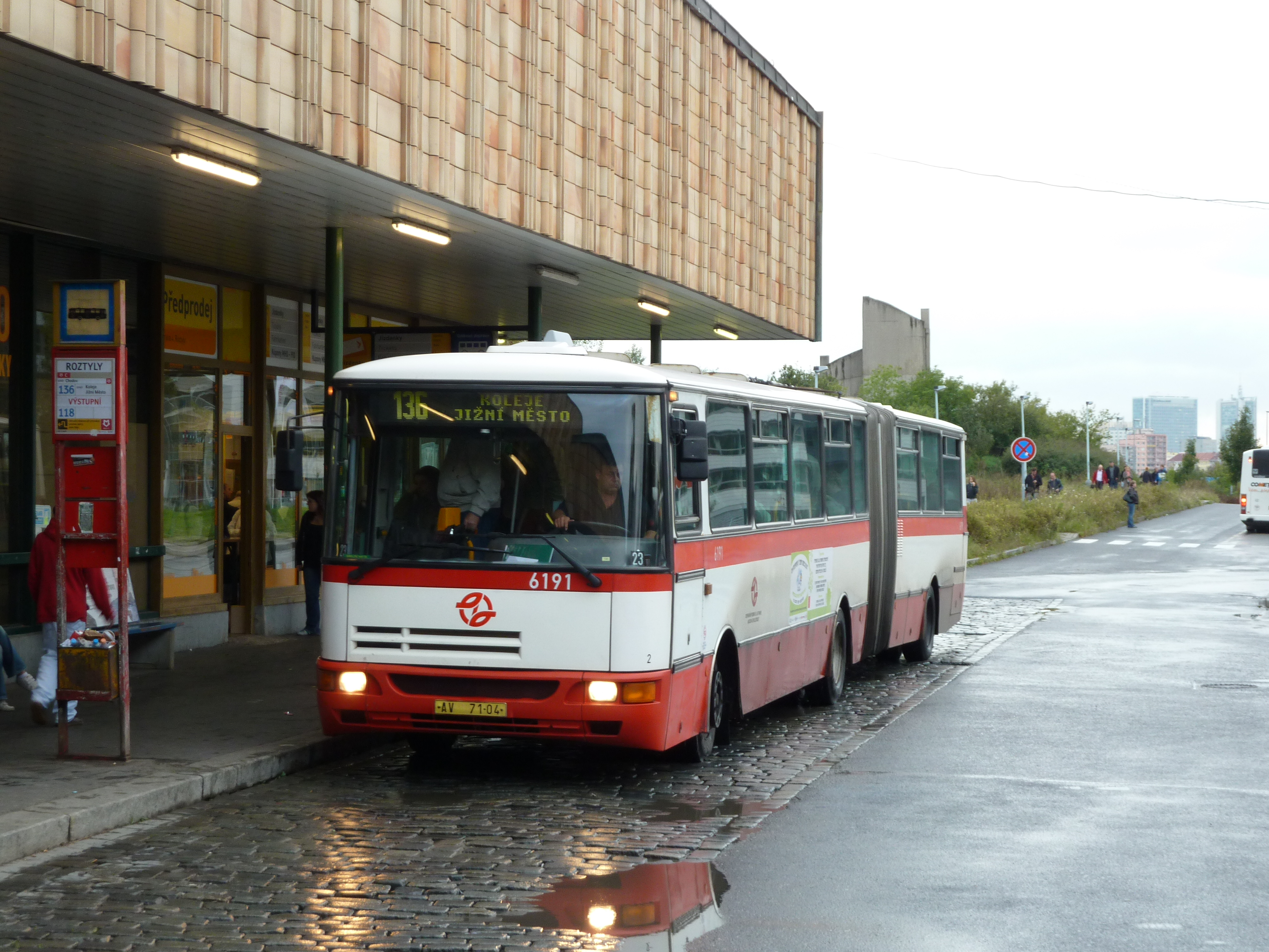 Bus Karosa B 941, number 6191, line 136, Roztyly stop, Prague